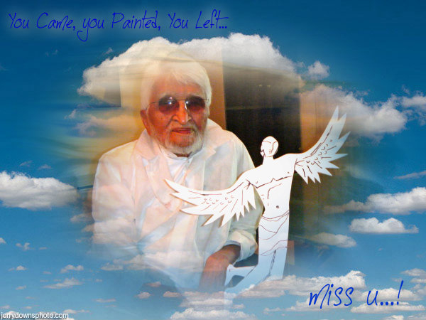 This is a Tribute to M F Husain, the Greatest Painter in India ever lived.